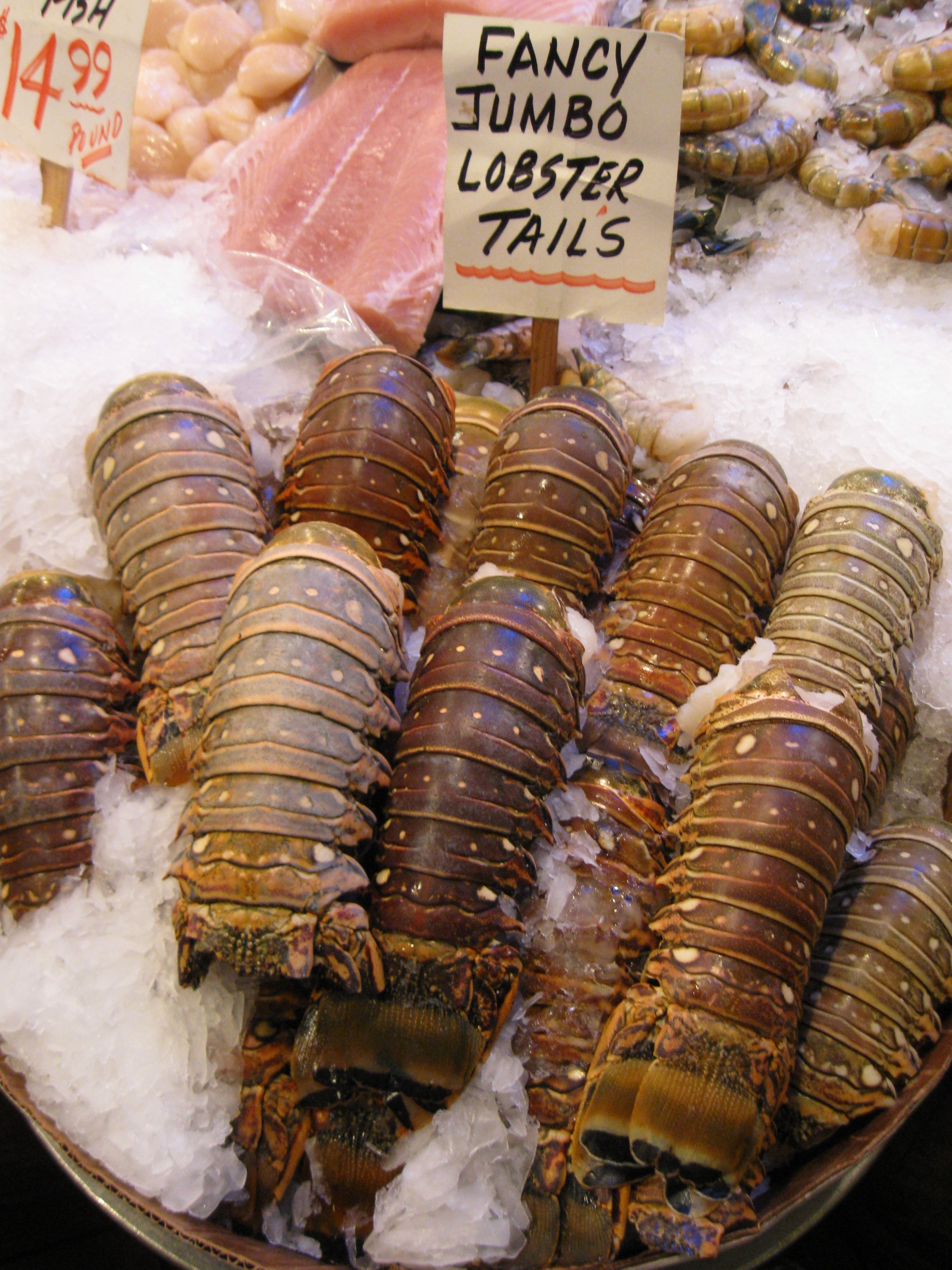 Pike Place Market